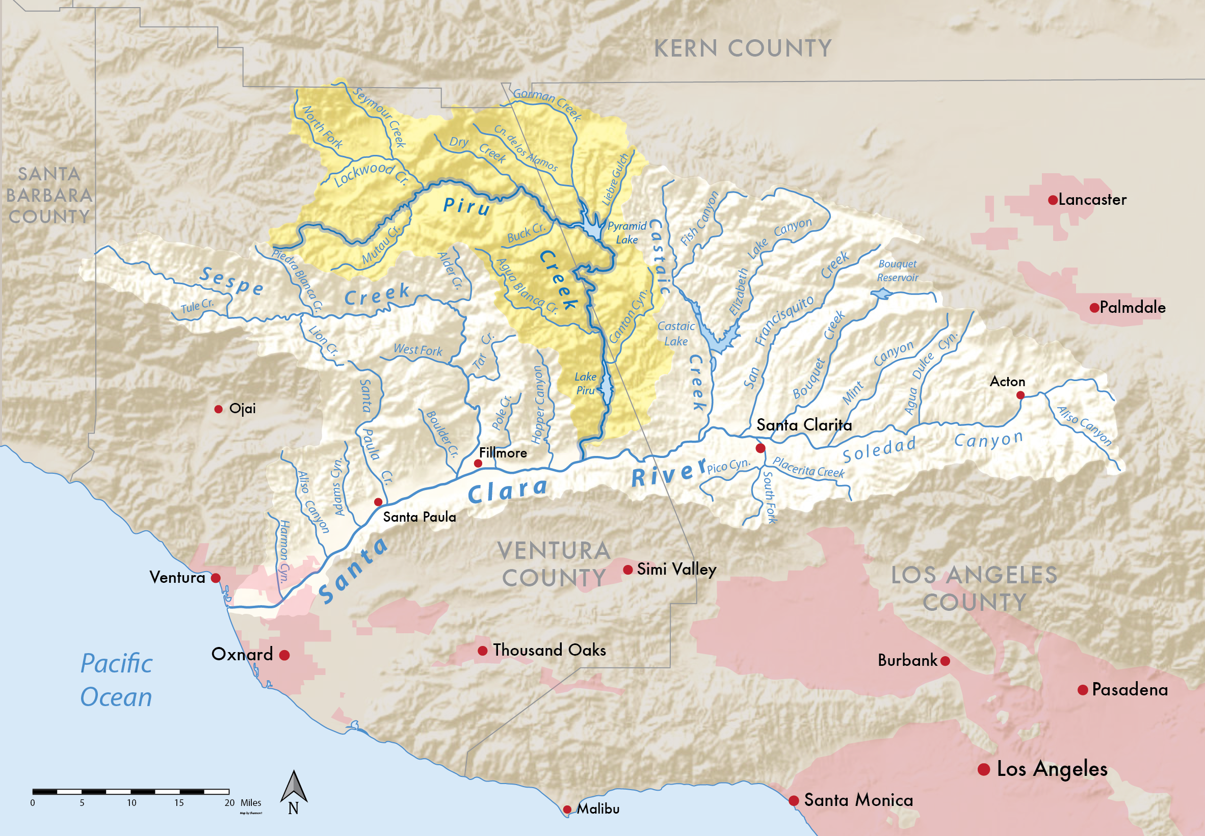 Map showing the Piru Creek watershed in Southern California, highlighted in the Santa Clara River system. Shaded releif and watershed boundary data from USGS National Map (public domain).